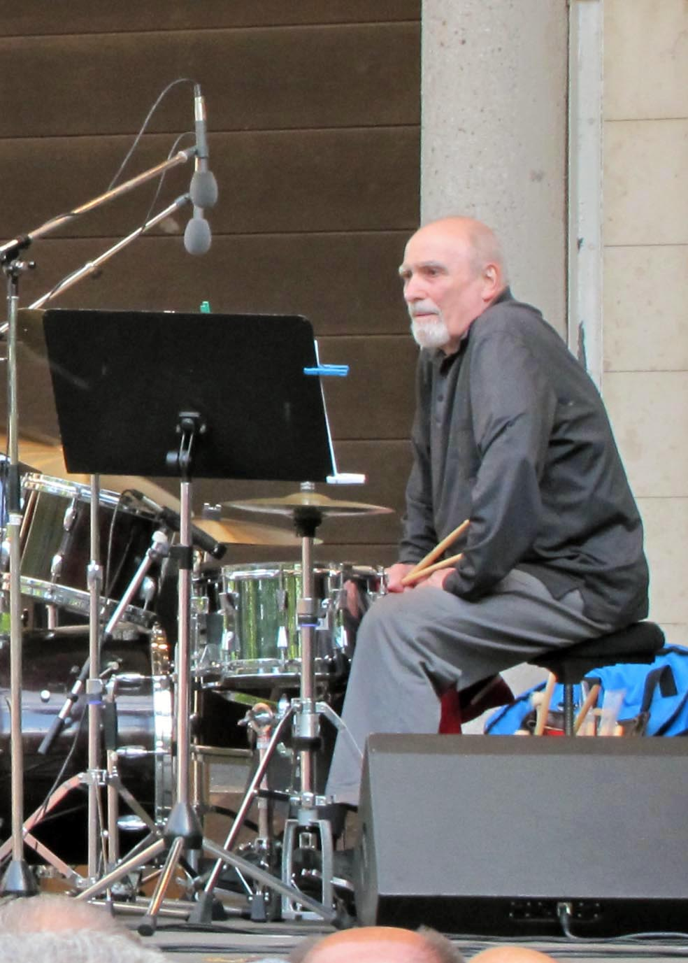 Ralf Huebner, German jazz drummer, at Palmengarten, 2011 in Frankfurt am Main, Germany.